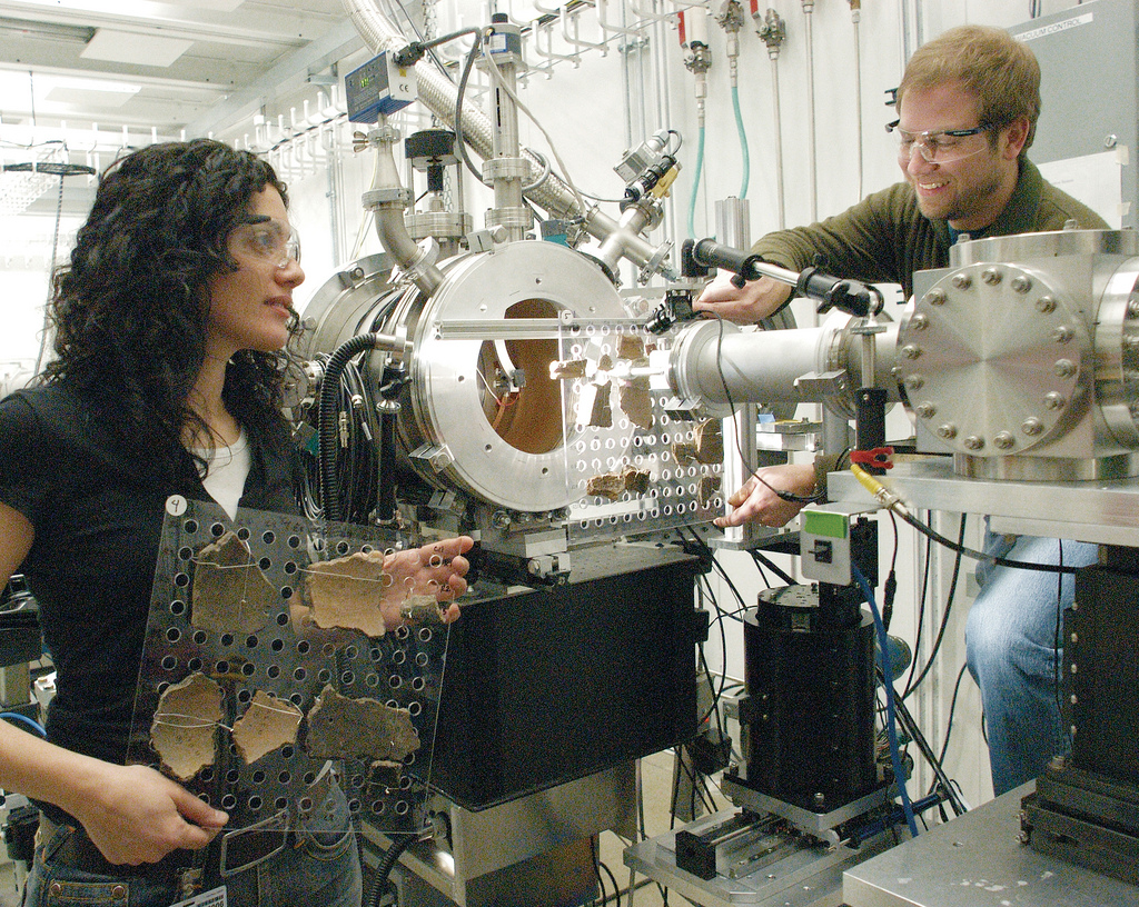 Lori Khatchadourian, University of Michigan and Adam Smith, the University of Chicago, switch sample mounts at the Advanced Photon Source ChemMatCARS 15-ID-D beamline. The samples are from one of Smith's excavations in Armenia and date to 1300 B.C. Smith's group is analyzing relics from northern China, the southern Urals, and the south Caucasus. The group's goal is to determine the utility of APS analysis to examining large assemblages of objects from different parts of the past. For more information or additional images, please contact 202-586-5251.